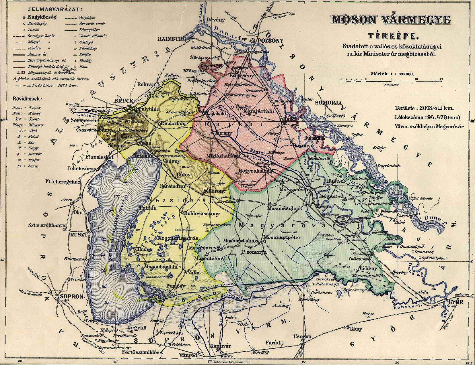 Administrative map of the county of Moson in the Kingdom of Hungary